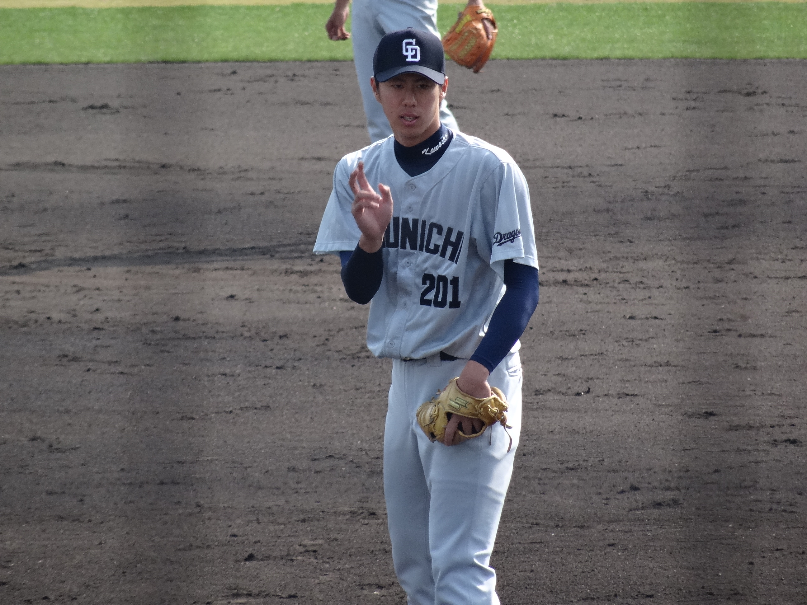 Takahiro Kawasaki, pitcher of the Chunichi Dragons, at Hanshin Naruohama Baseball Ground.